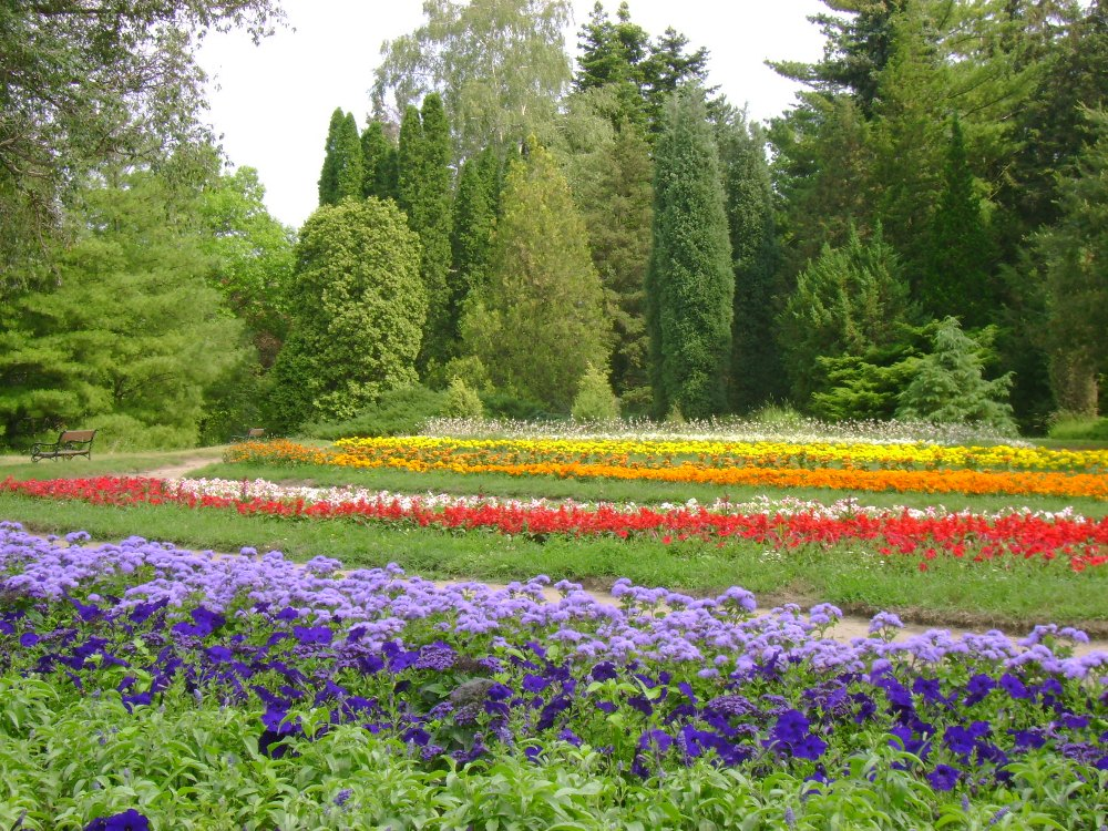 Botanic Garden, Vacratot, Hungary